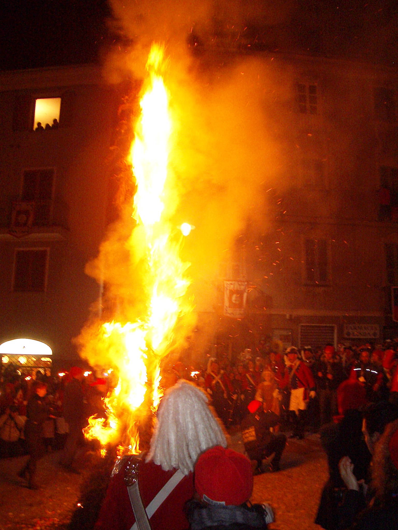 Carnival of Ivrea, Bruciamento degli Scarli (Scarli burning, last carnival ceremony)